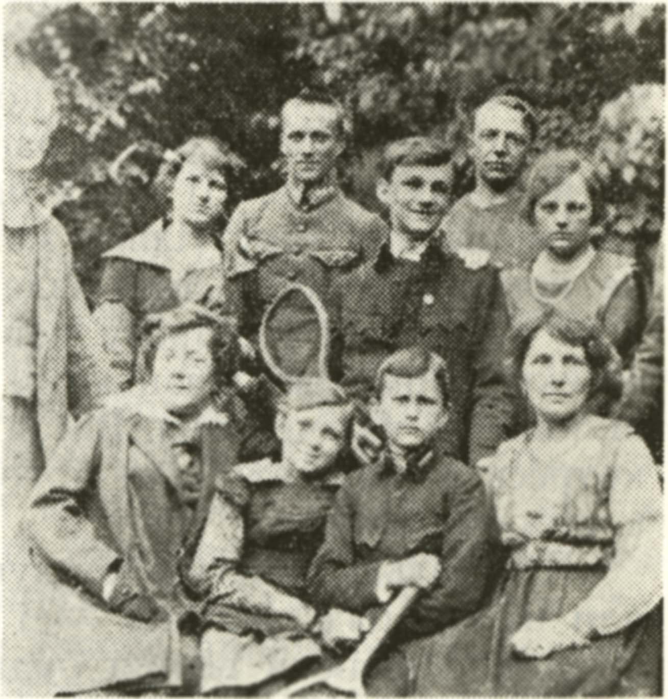 First row from the left: Standing is Father Ivan; seated Aunt Sydonia, sister Lidia, brother Zenon, and Mother Sofia; Second row standing left to right: Irena, Lev, Stefania. The two people in the back are unidentified.